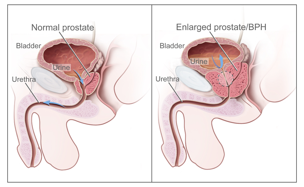 Two-panel drawing shows normal male reproductive and urinary anatomy and benign prostatic hyperplasia (BPH). Panel on the left shows the normal prostate and flow of urine from the bladder through the urethra. Panel on the right shows an enlarged prostate pressing on the bladder and urethra, blocking the flow of urine.